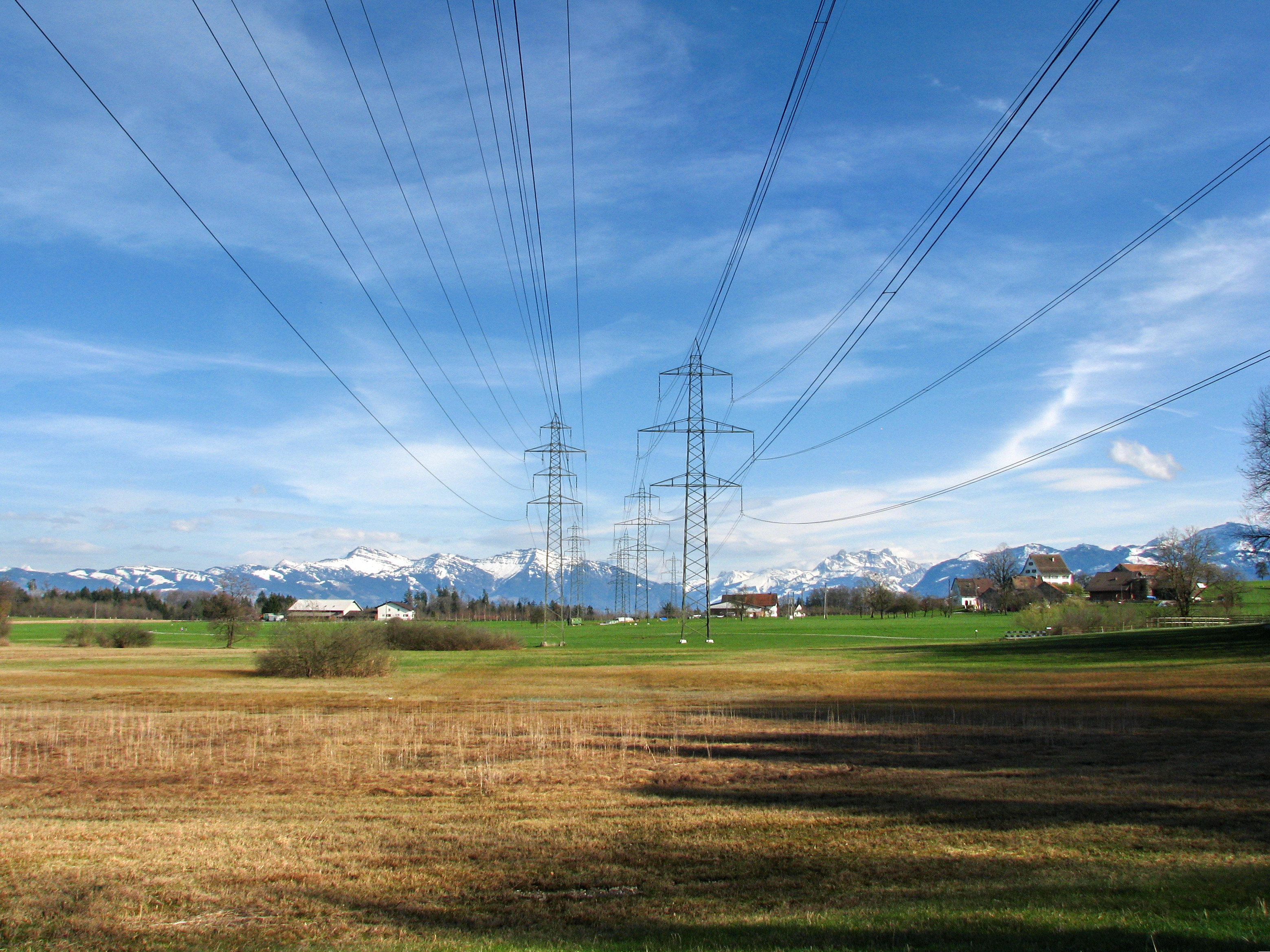 The powerline Sils-Fällanden nearby Egelsee in Bubikon (Switzerland)